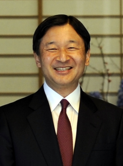 Prince William met Crown Prince Naruhito at the Crown Prince's Residence in Minato Ward, Tōkyō Metropolis on February 27, 2015.